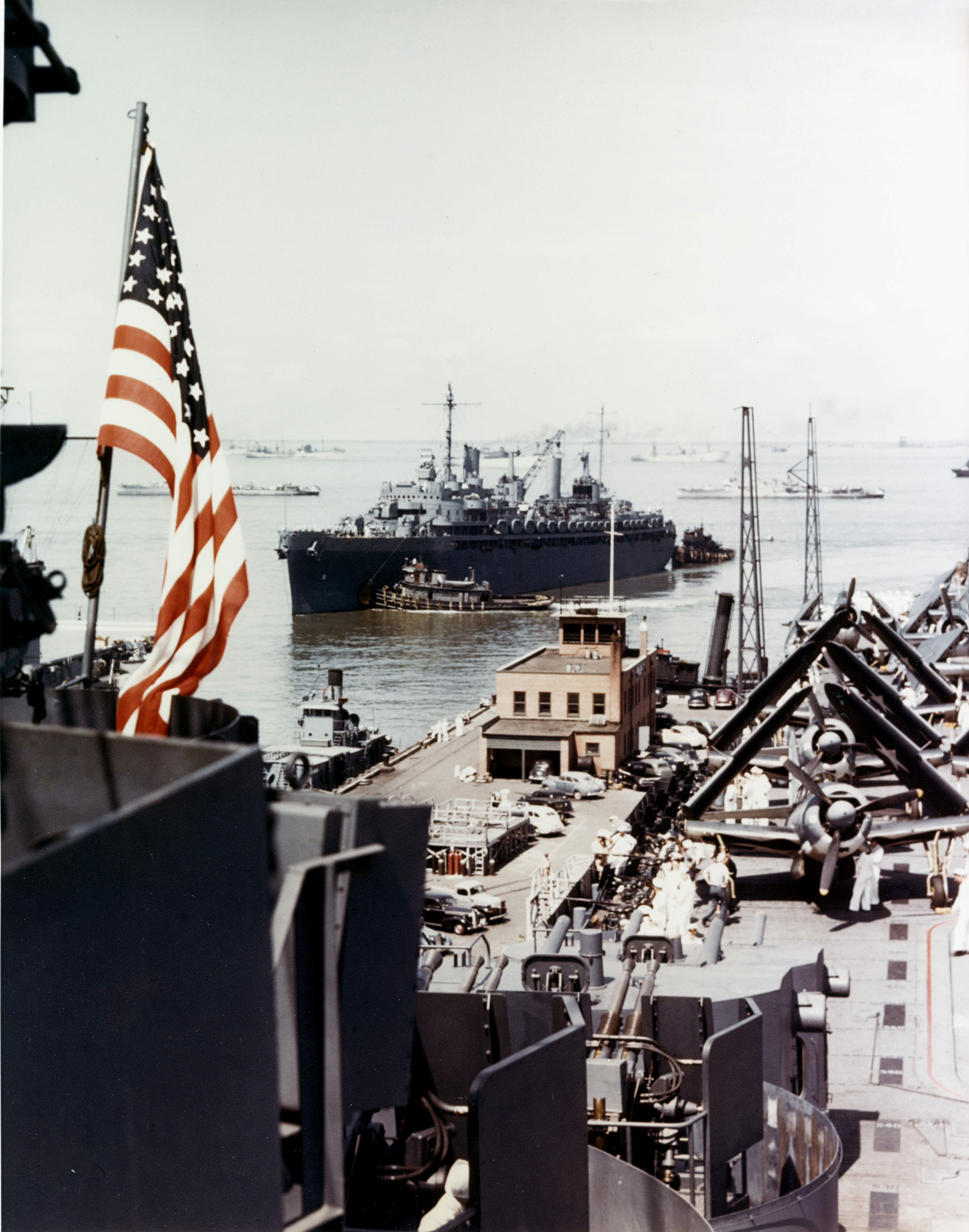 The U.S. Navy repair ship USS Vulcan (AR-5) departing Norfolk Naval Station, Virginia (USA), for the Mediterranean on 22 June 1943. Note the tugs assisting her, and old four-piper destroyers and merchant ships anchored in the harbour. The photo was taken from the island of USS Yorktown (CV-10), an Essex-class aircraft carrier. Planes on deck include Curtiss SB2C-1 Helldiver and Grumman TBF-1 Avenger types.